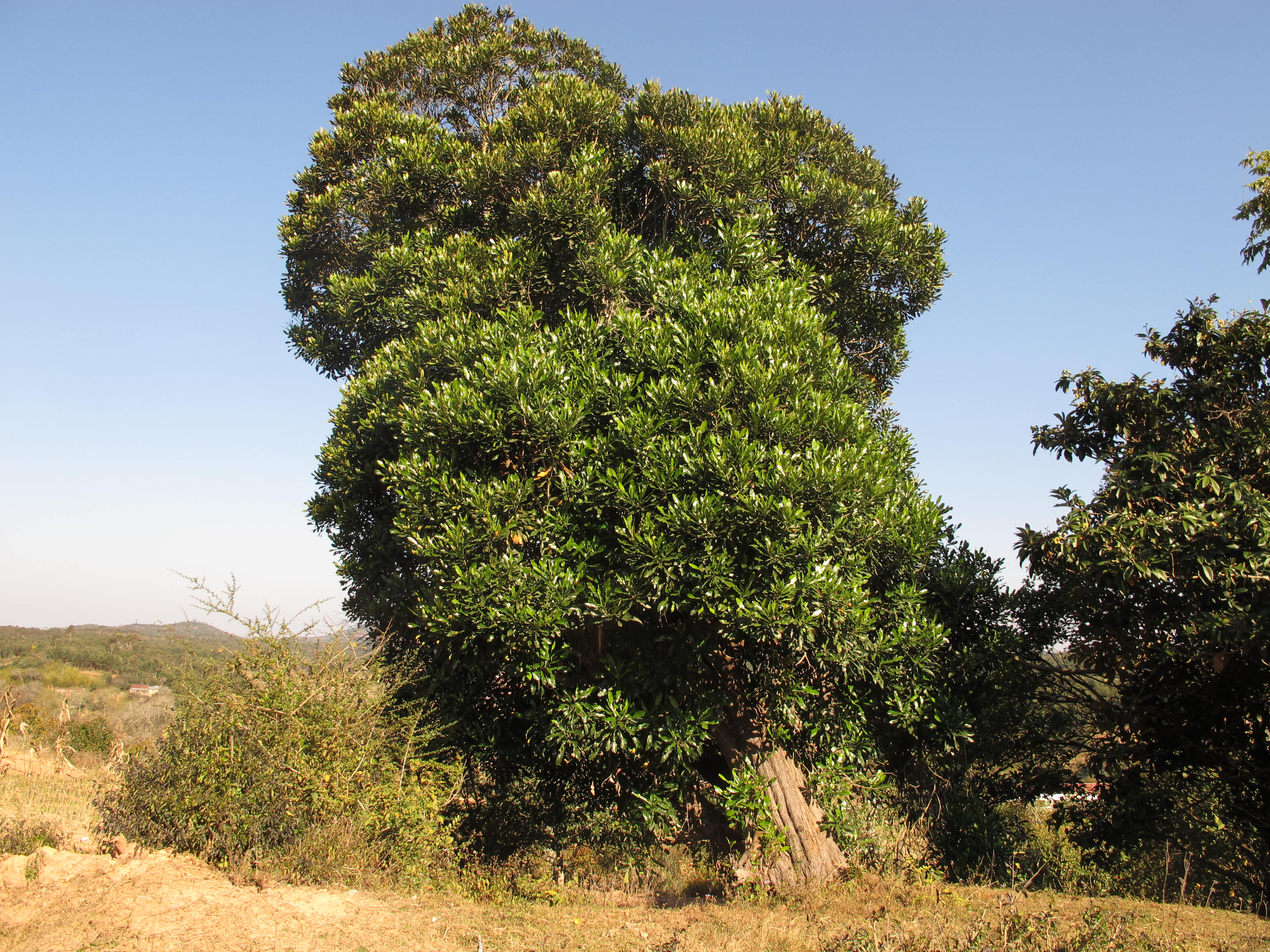 Phyllarthron bojeranum syn. P.madagascariensis near Mantasoa, Madagascar